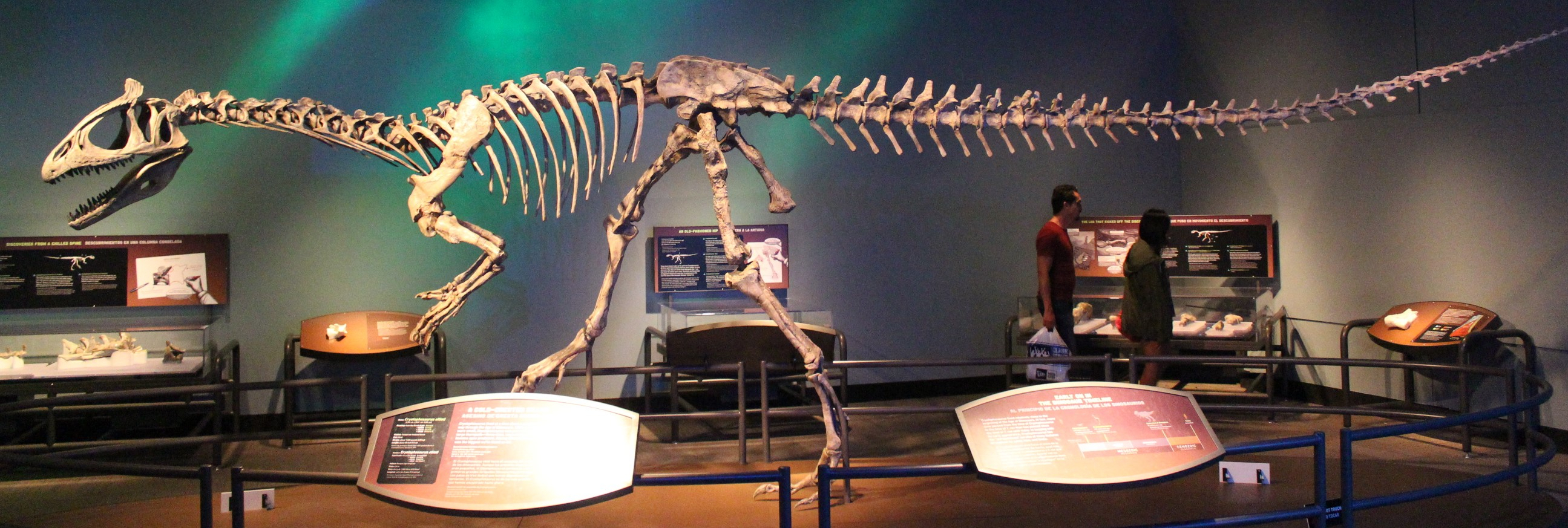 Reconstructed cast of Cryolophosaurus on display at the Field Museum of Natural History during the Antarctic Dinosaurs exhibition.